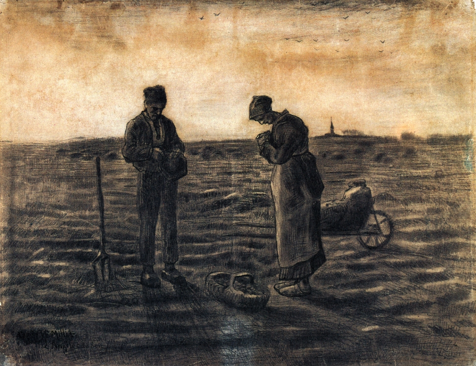 Angelus, Van Gogh